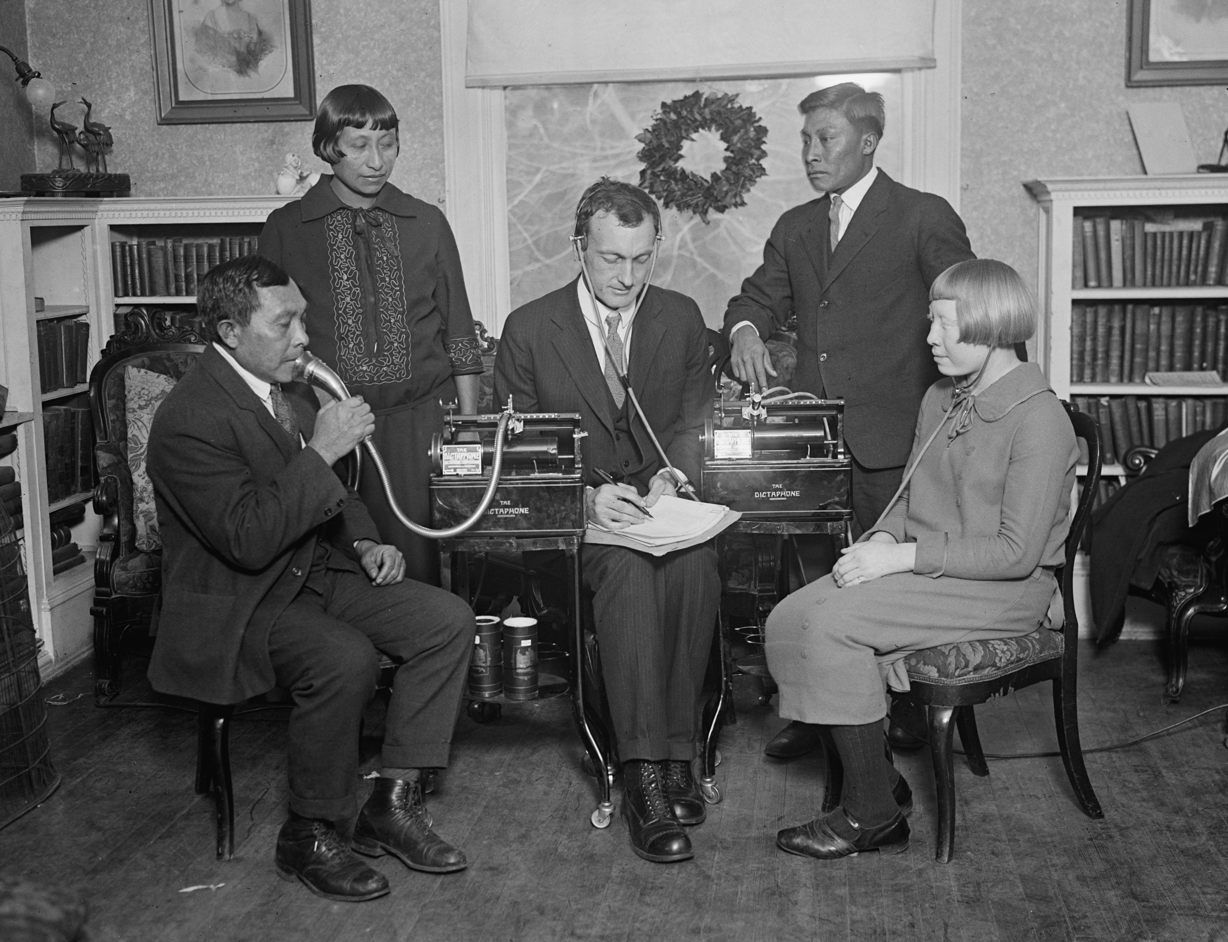 Title: Dr. J.P. Harrington of Smithsonian with White Indians, 12/31/24 Photo shows group including Kuna Indians of the Republic of Panama Back row: Alice Perry, Alfred Robinson. Front row: James Perry, John P. Harrington, and Margarita Campos (Marguerite) (Source: Smithsonian website, 2013) Abstract/medium: 1 negative : glass ; 4 x 5 in. or smaller